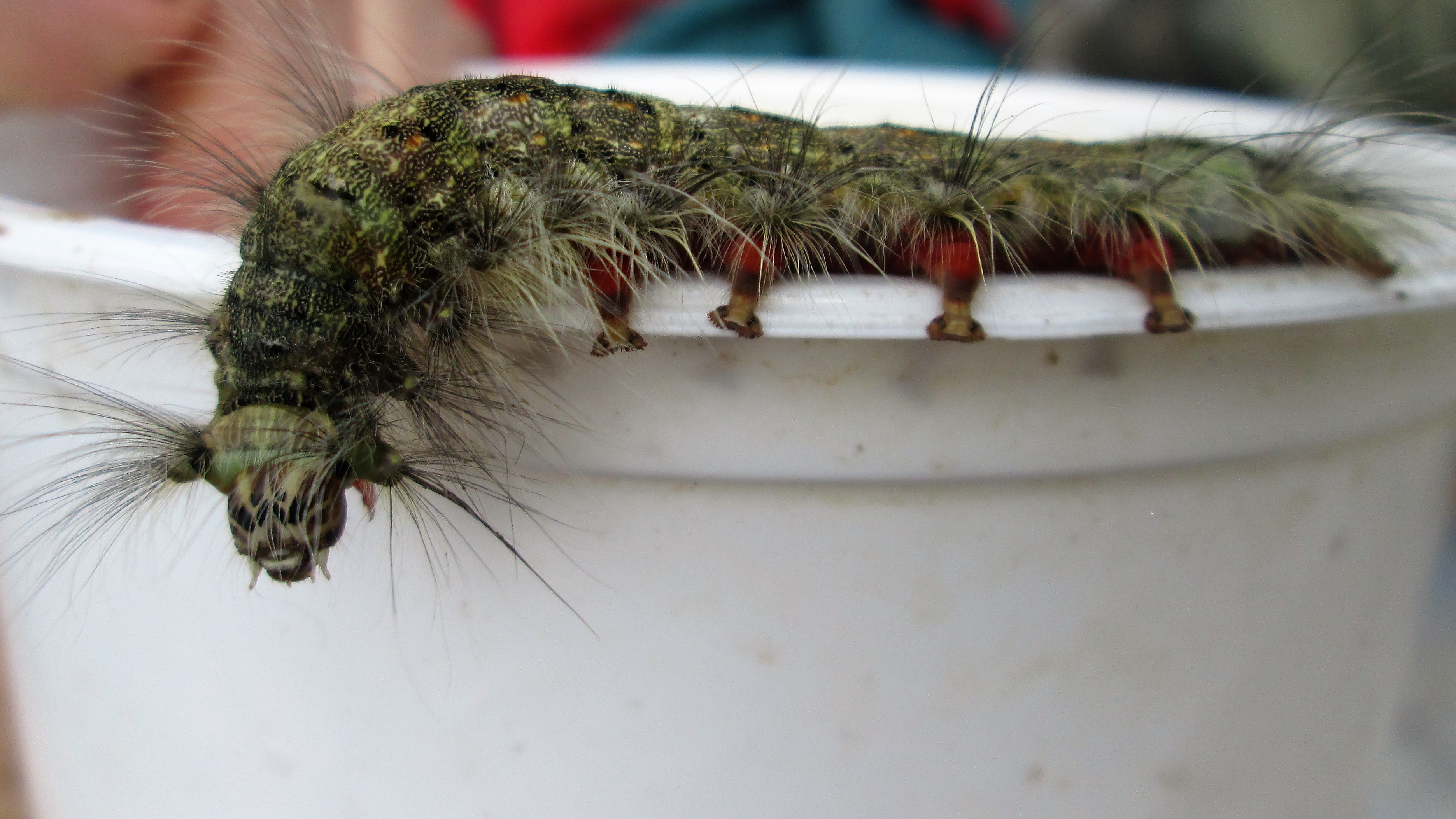 This is a large caterpillar, one of the many insects encountered during a research trip to Yasuni National Park.